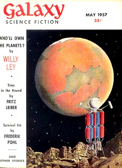 Cover of Galaxy, May 1957